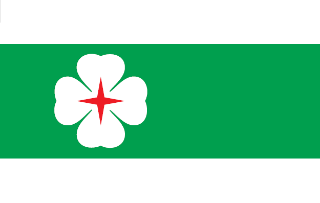 Flag of Lääne-Nigula Parish.